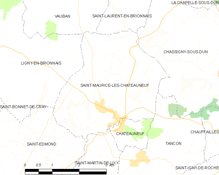 Map of French municipality